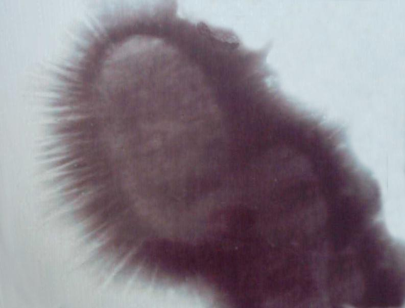 Seen under Scanning Electron Mticroscope with magnification of 50,00a0.